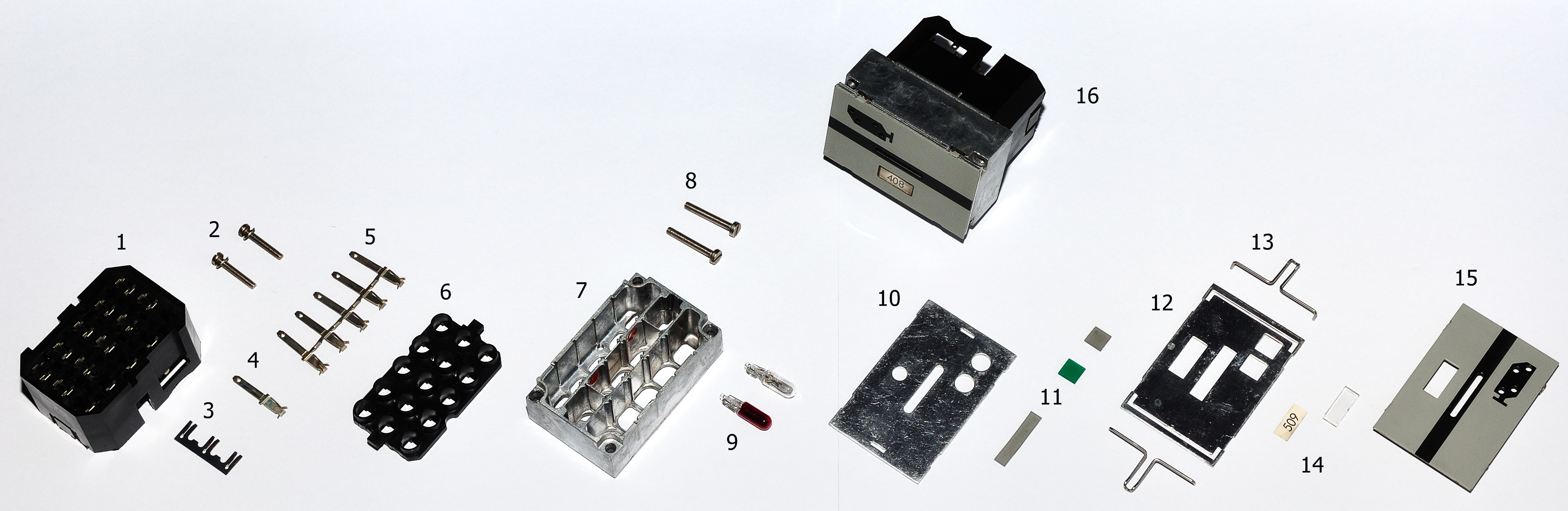 Field of a SpDrS60 control panel, wich shows the illumination of a distant signal to the operator. Dimensions: 54 x 34 mm, hight 46 mm. It consists of two assemblies: Part 1-9 form the lower part wich is screwed in the control panel, Part 10-15 form the upper part, it can be lifted with a magnet to change the bulbs.